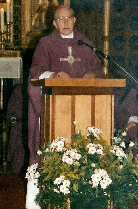 Emeritus Bishop Johannes Gijsen of Roermond and Reykjavik